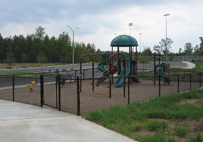 Northeast Park playground